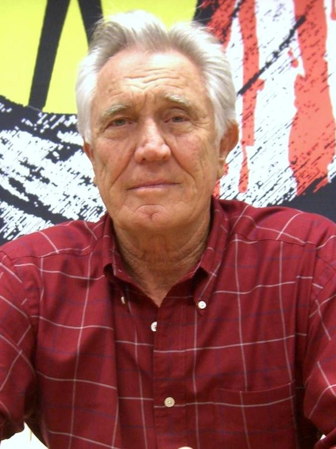 Actor George Lazenby at the November 2008 Big Apple Convention in Manhattan. This photo was created by Luigi Novi. It is not in the public domain, and use of this file outside of the licensing terms is a copyright violation.